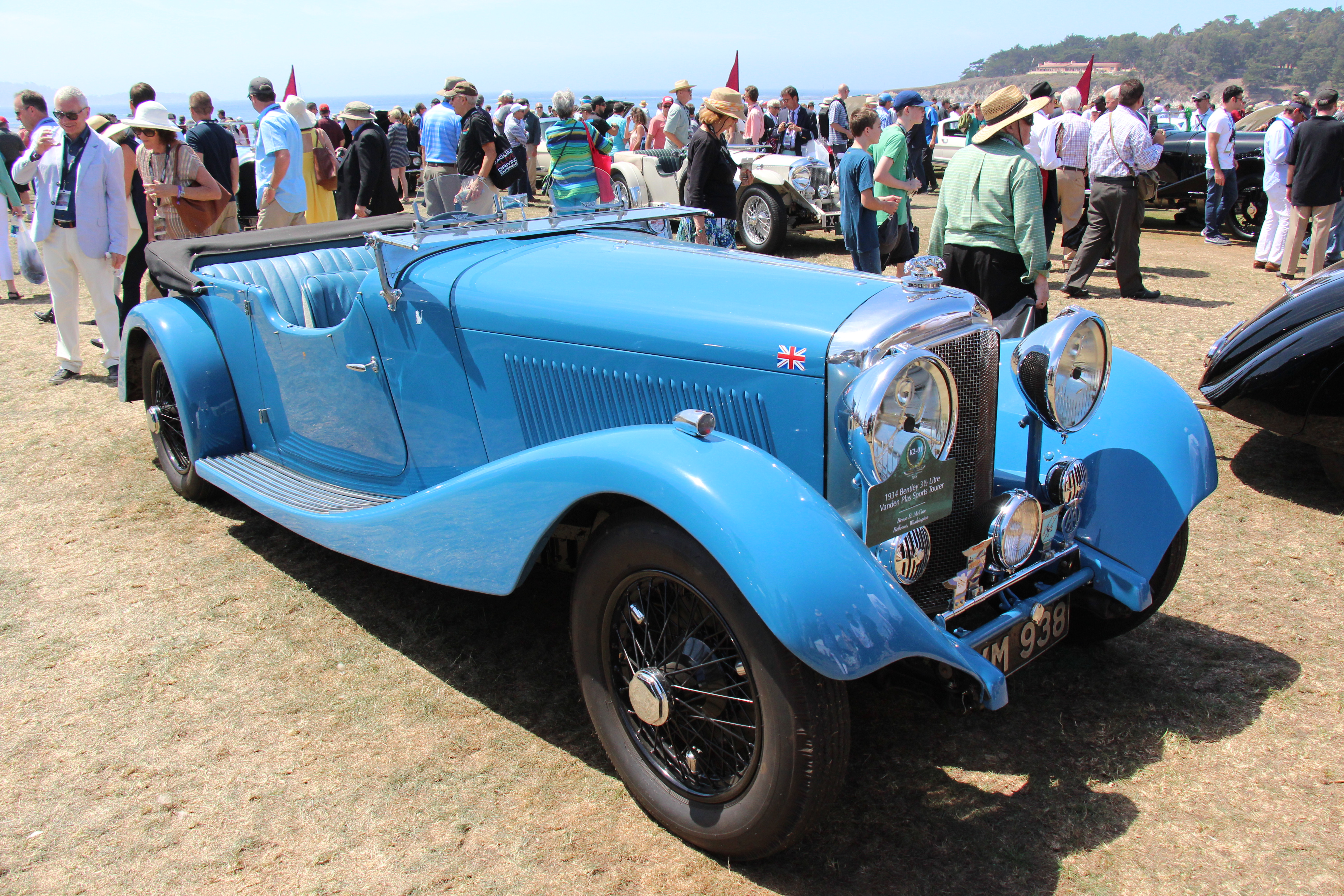 The Bentley 3½ Litre was available from 1933 to 1936, it was the first new Bentley model following Rolls-Royce's acquisition of Bentley in 1931. 1177 3½ Litre cars were built by various coachbuilders. The 3½ Litre engine was developed from Rolls' straight 6 cyl. The chassis was manufactured from nickel steel, and featured a double-dropped layout to gain vertical space for the axles and thus keep the profiles of the cars low. This Vanden Plas bodied Siamese blue Derby was ordered in 1934 by racing driver, Prince Bira of Siam, the car was used by Bira and his cousin Prince Chula to travel between races in Europe. Engine; 110hp 223 cu in 6 cyl A drophead 3½ Litre was briefly featured as James Bond's personal vehicle in the 1963 movie From Russia with Love. Photographed at the 2015 Pebble Beach Concours d'Elegance